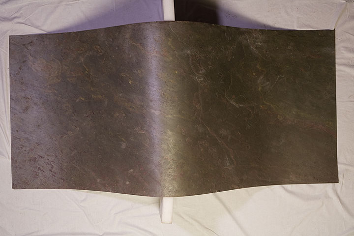 A sheet of flexible stone veneer laid over a 12" tall brace, illustrating the flexible nature of flexible stone veneer.